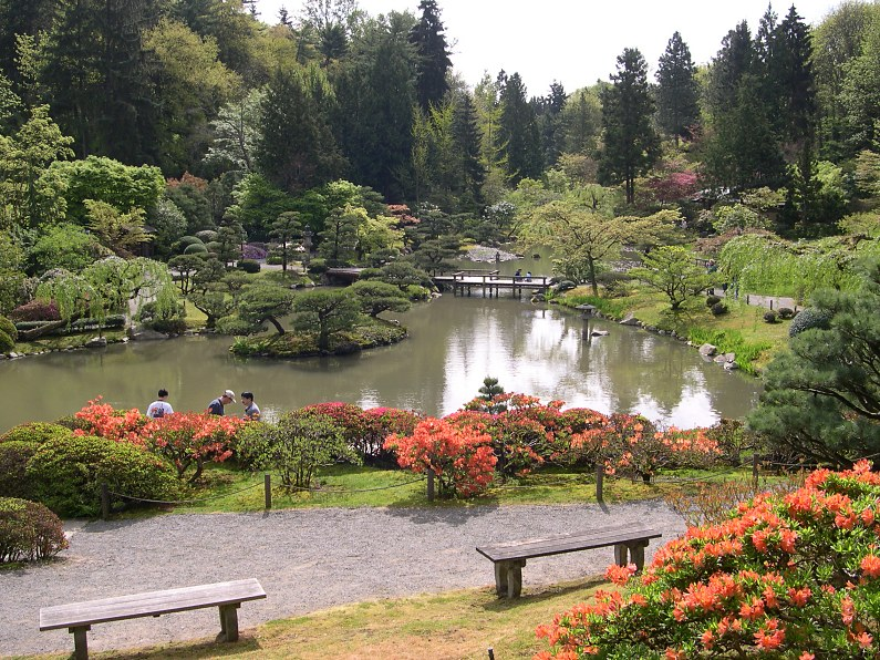 Seattle Japanese Garden.